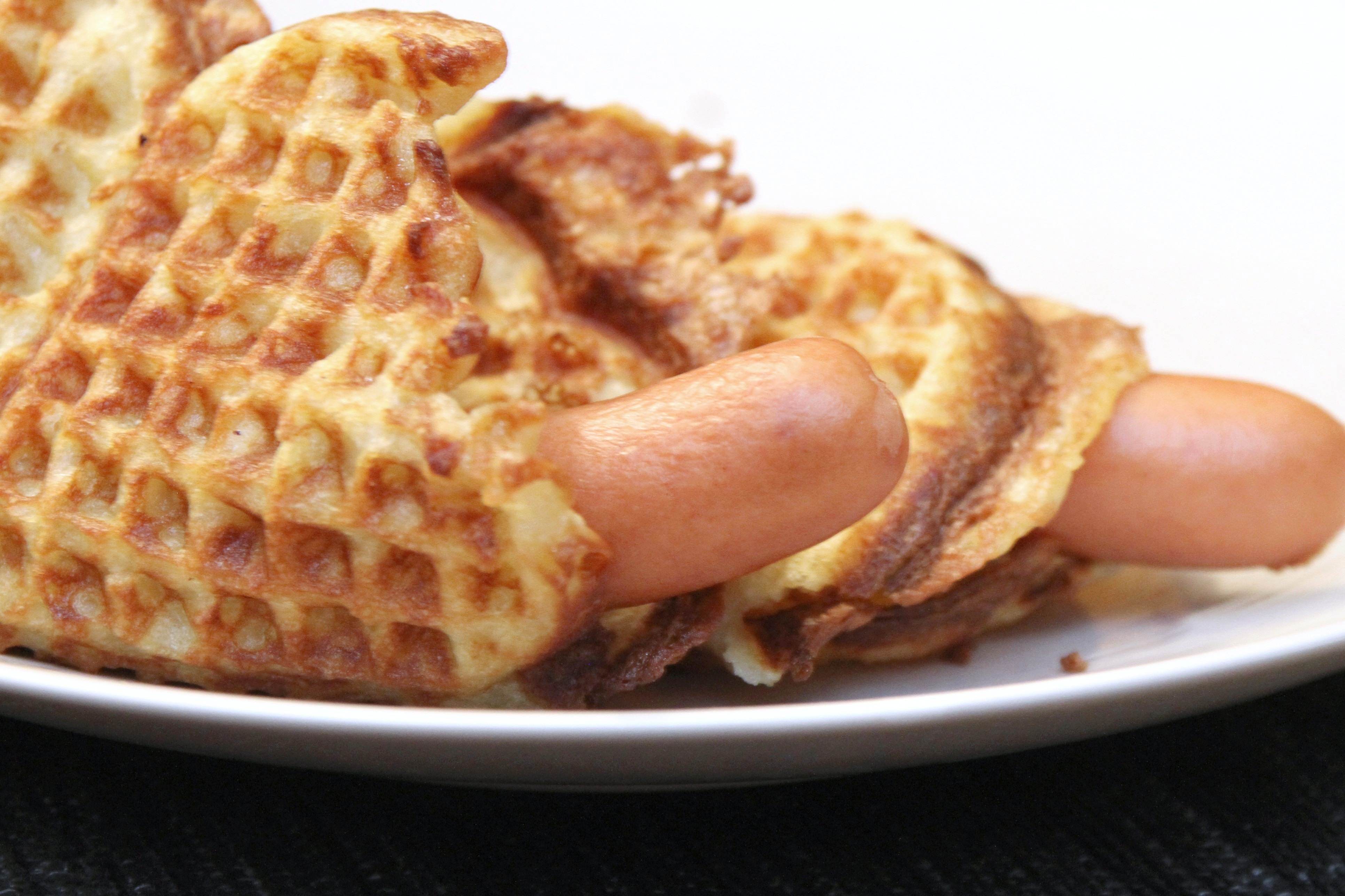 Hot dog in waffle, a specialty of Østfold, Norway.